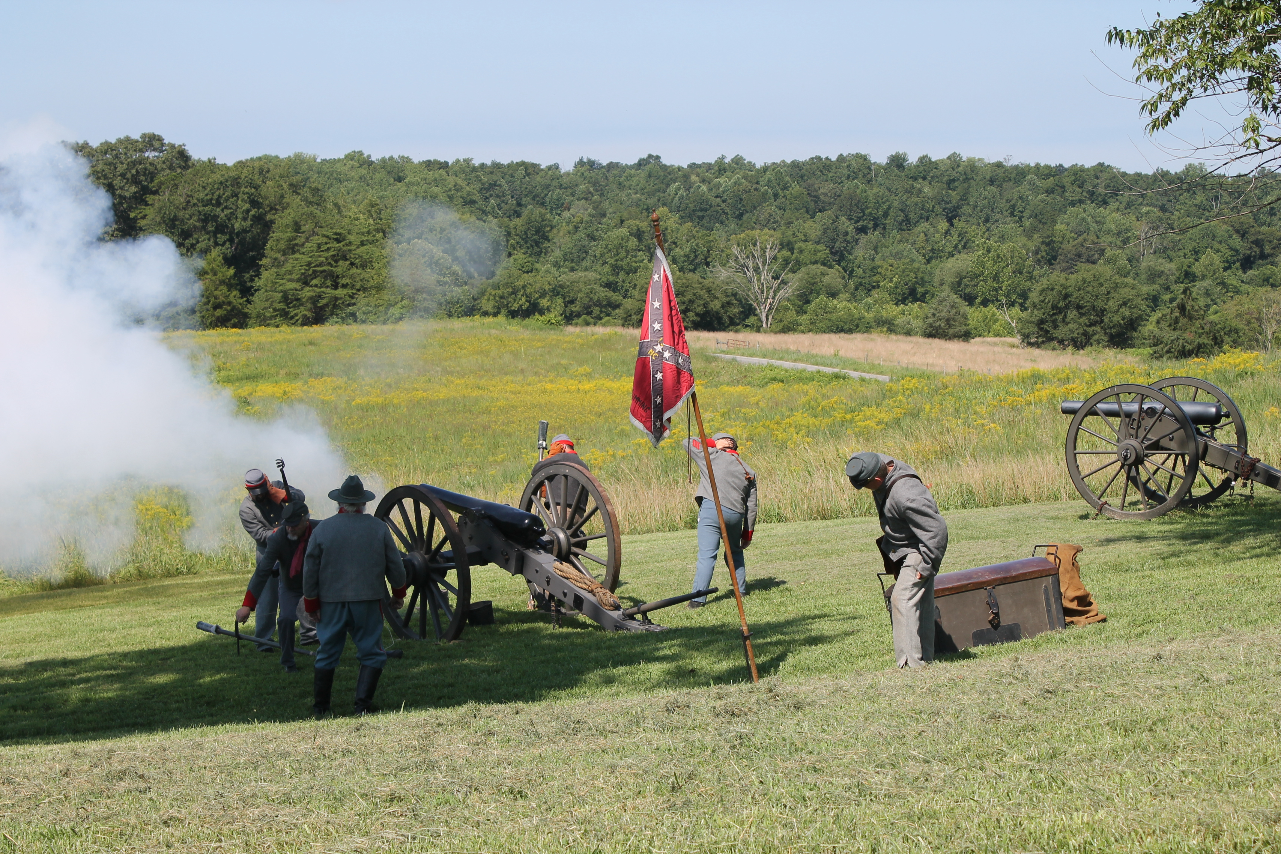 Sailor's Creek Battlefield. zar